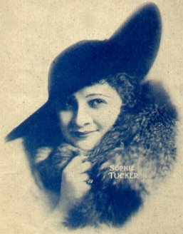 Photograph of Sophie Tucker